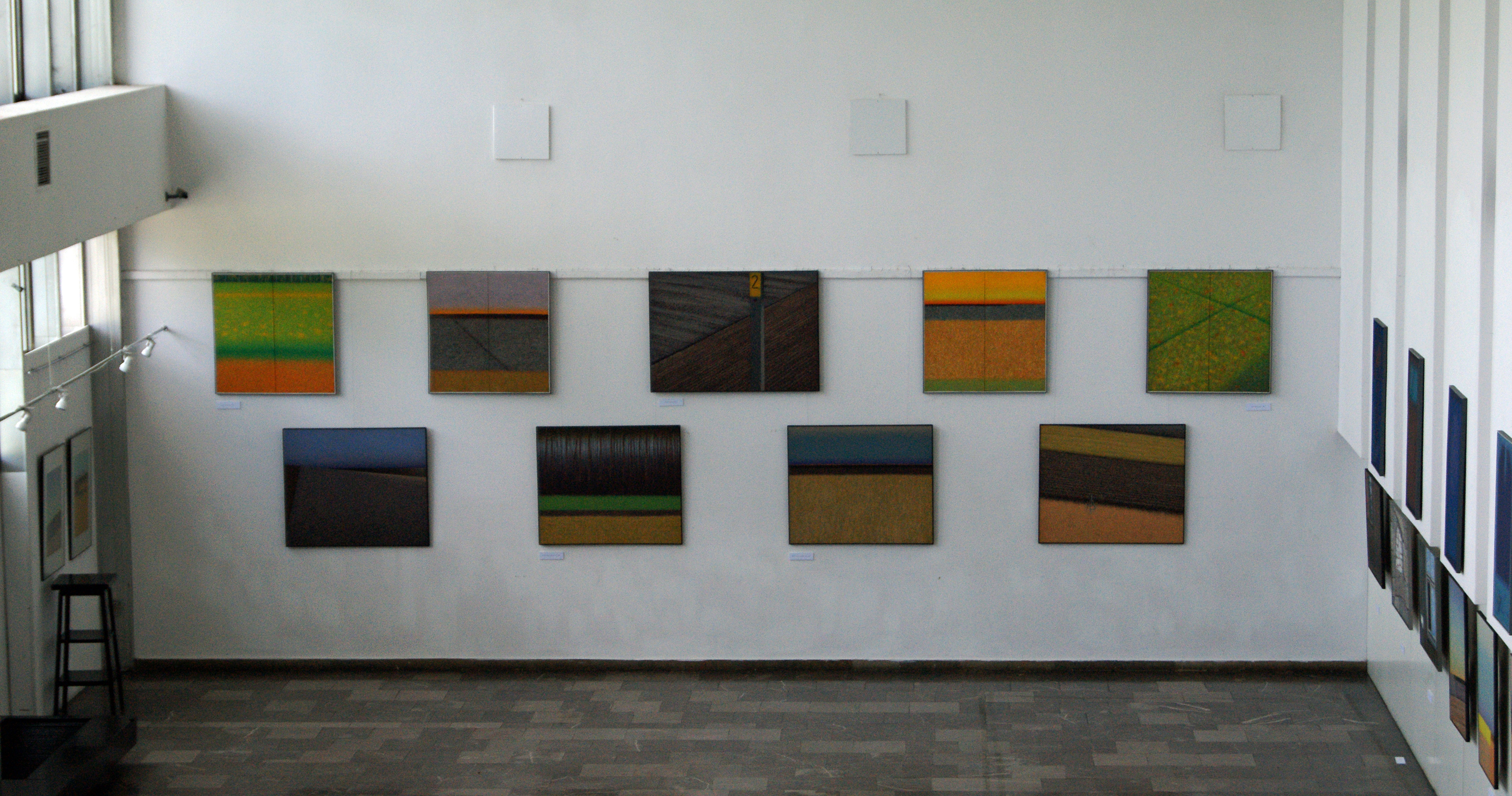 Leszek Misiak (Polish painter), exhibition in NCK Kraków 2013, Poland